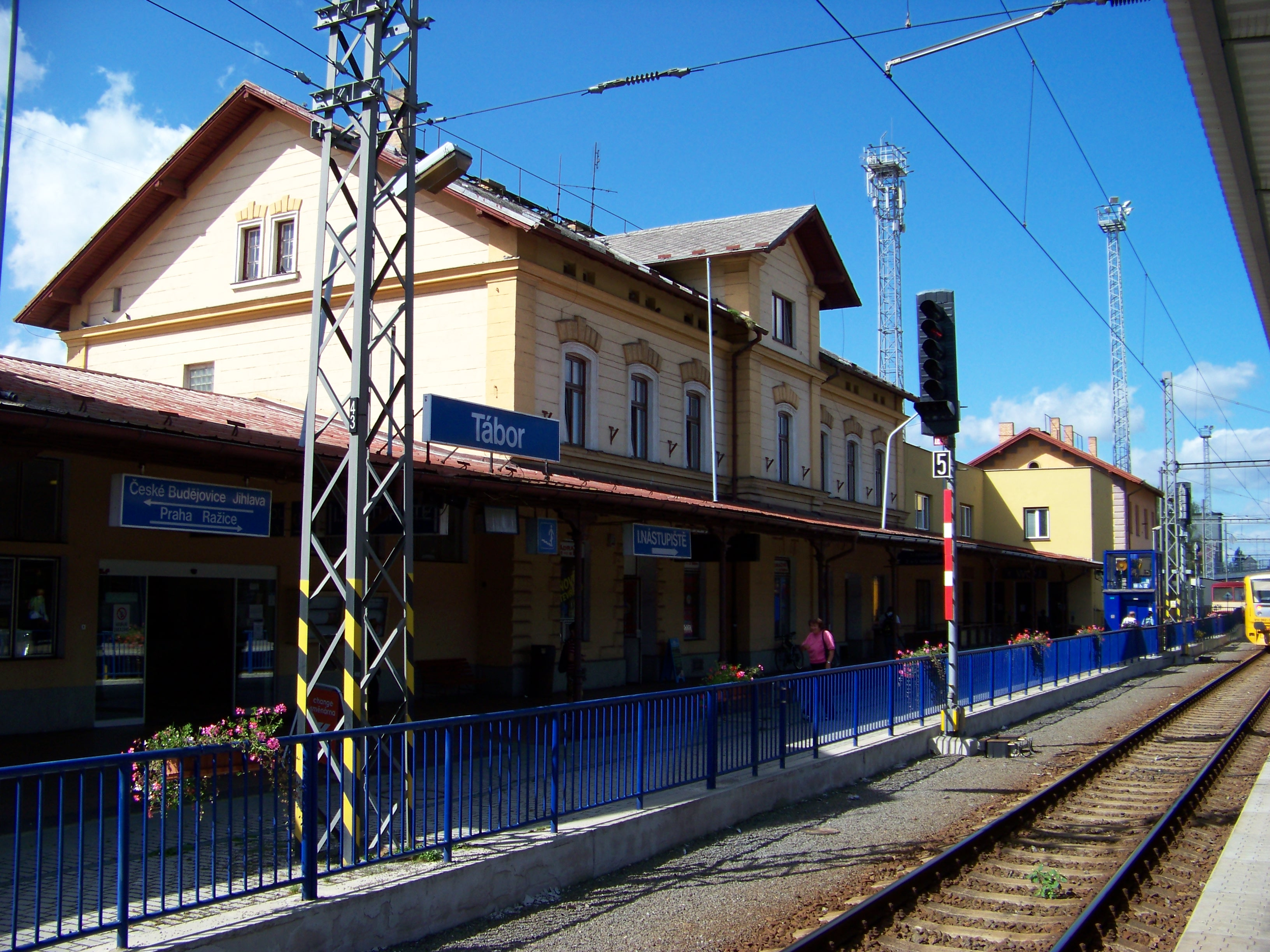 Tábor, Tábor District, South Bohemian Region, the Czech Republic. Train station Tábor. - OpenStreetMap(Info)